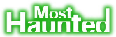 A white logo with a green border used on TV's Most Haunted.